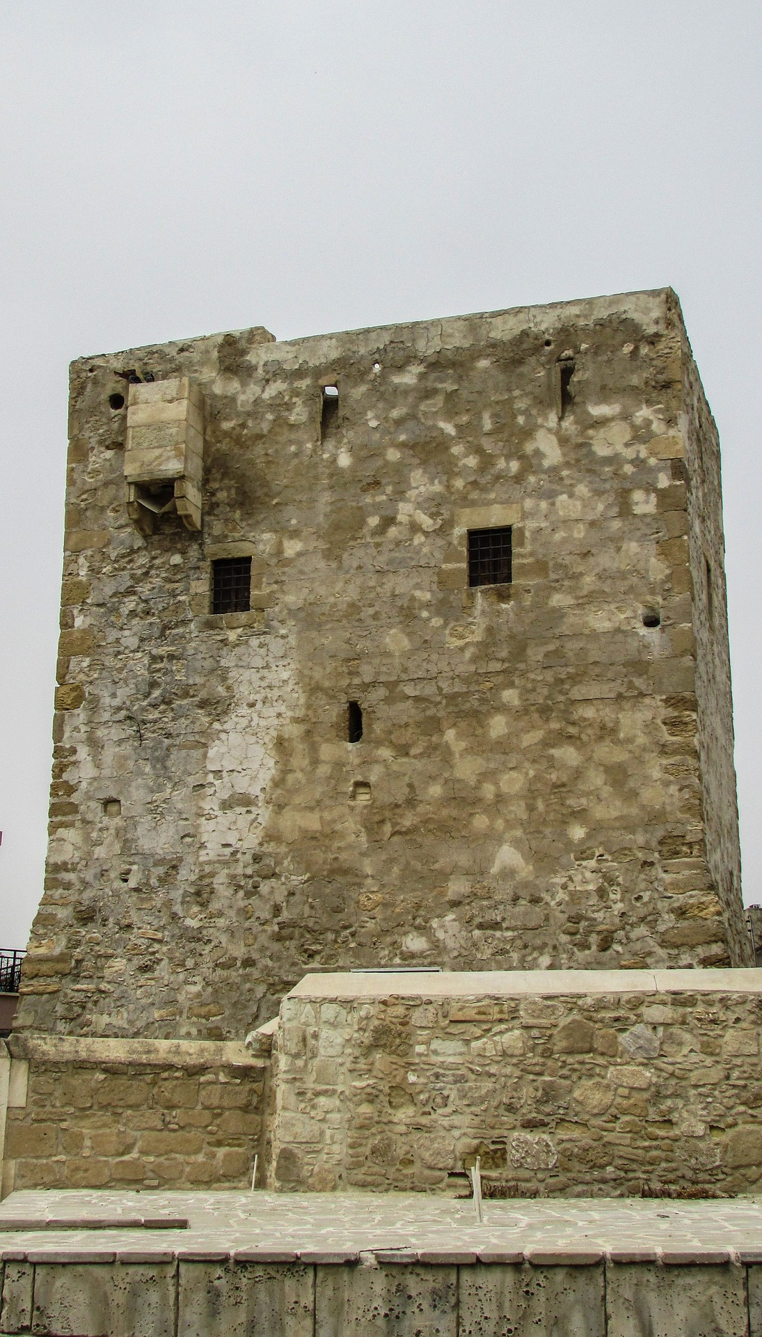 Venetian Watchtower, Pyla, Cyprus